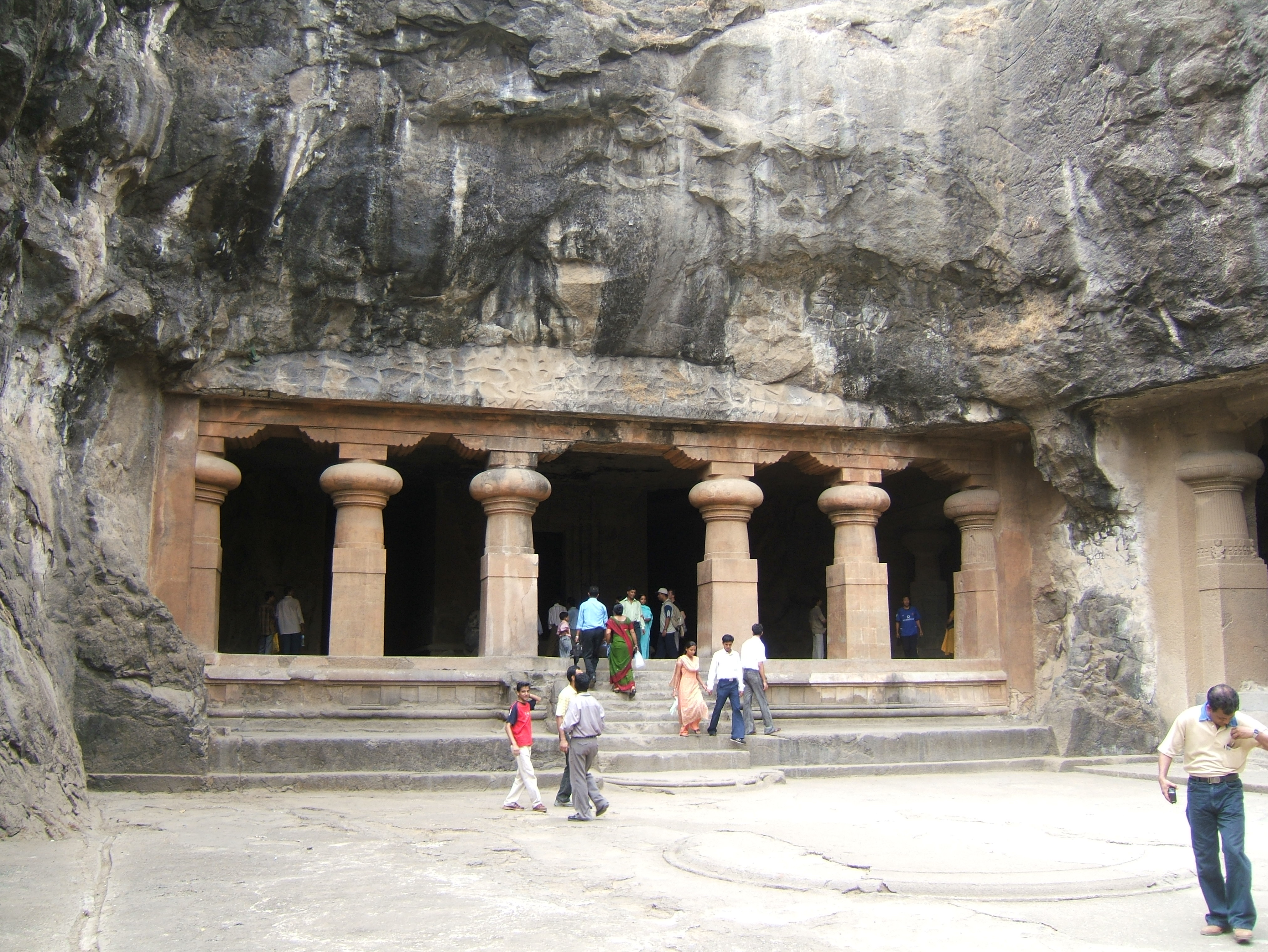 Elephanta Island caves